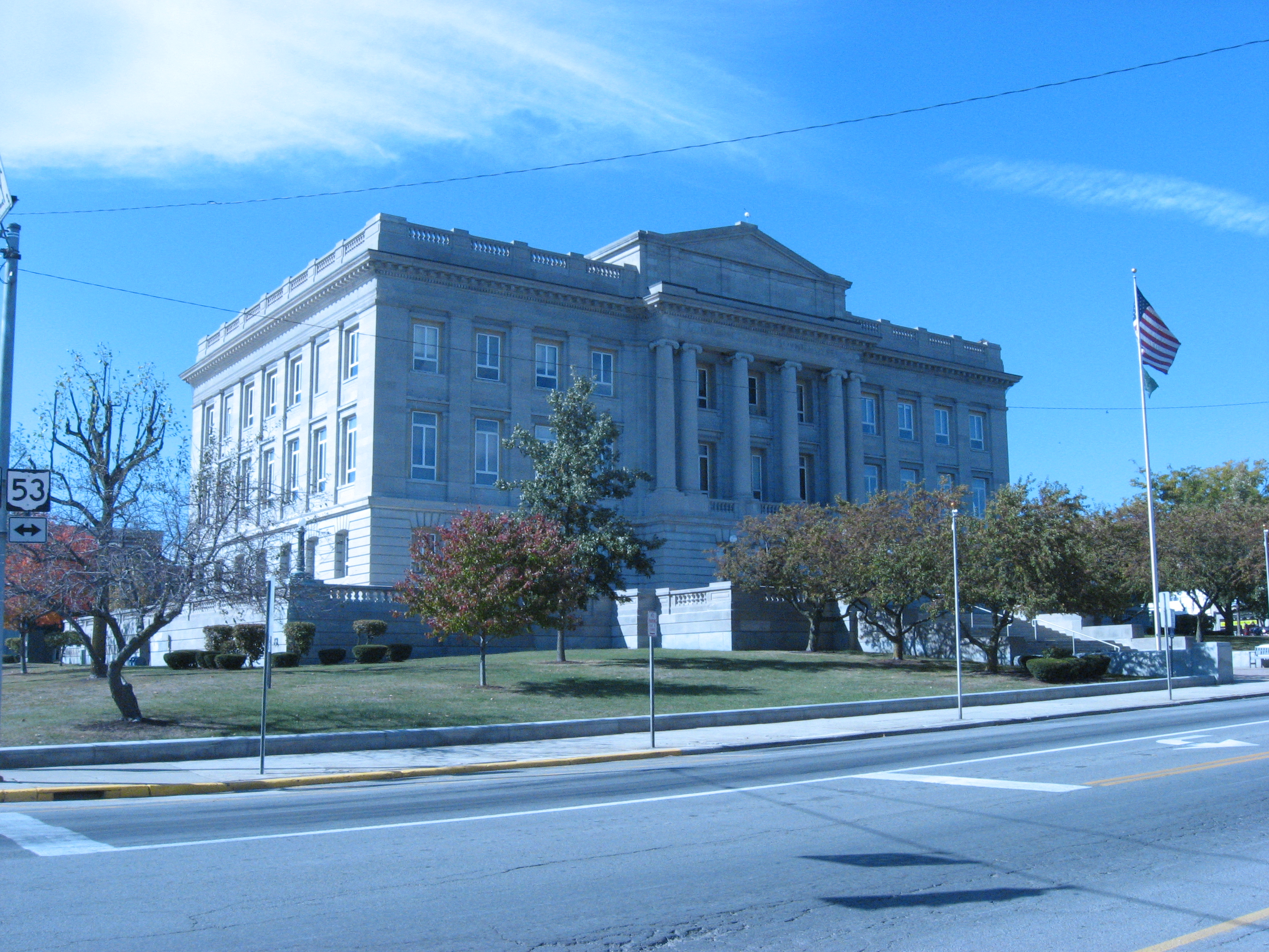 View of the Hardin County Courthouse, a National Register of Historic Places site in central Kenton, Ohio, United States. Address is One Courthouse Square; the square is surrounded by Columbus (north), Main (east), Franklin (south), and Detroit (west) Streets.